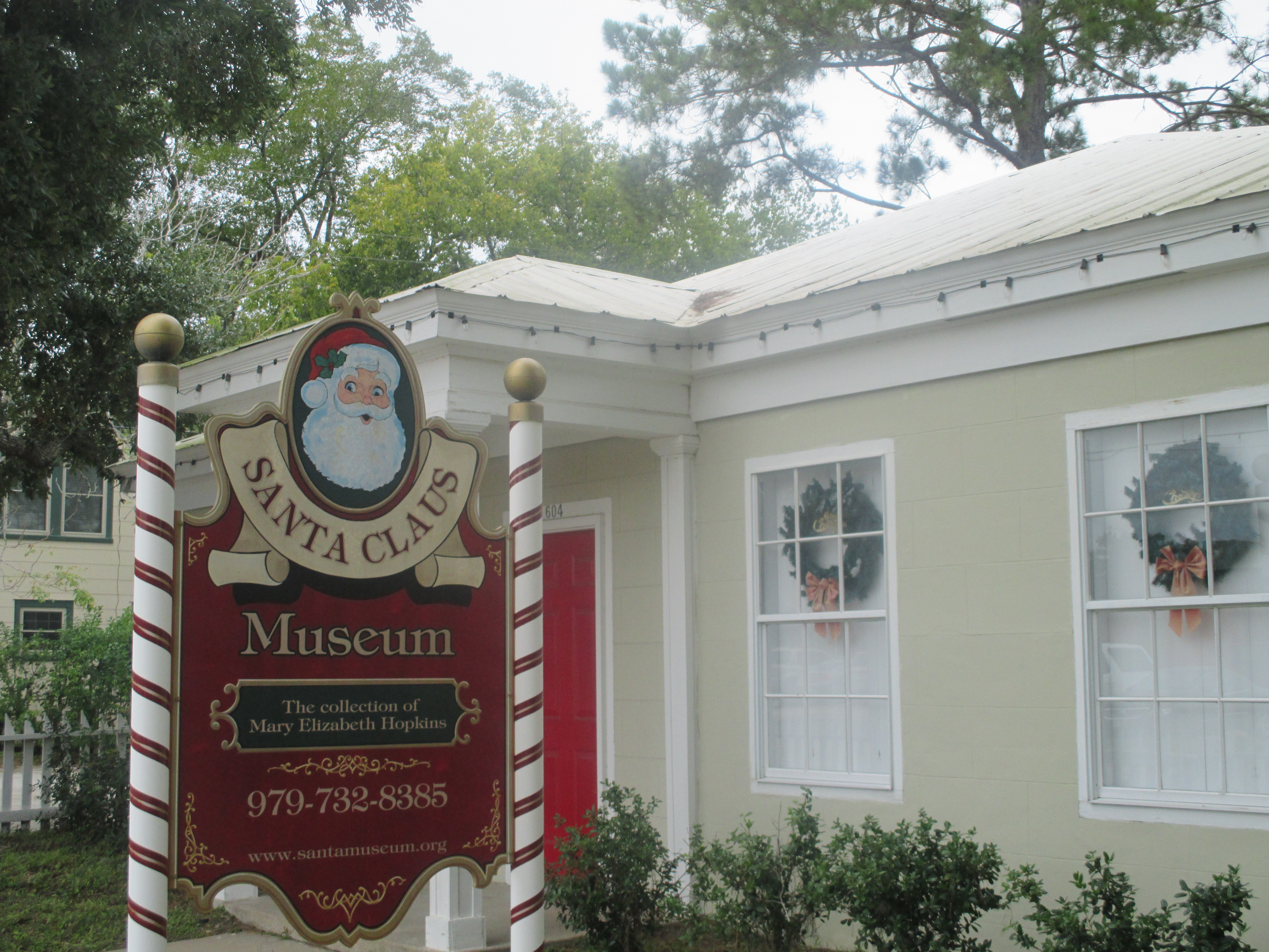 I took photo of Santa Claus Museum in Columbus, TX, with Canon camera.